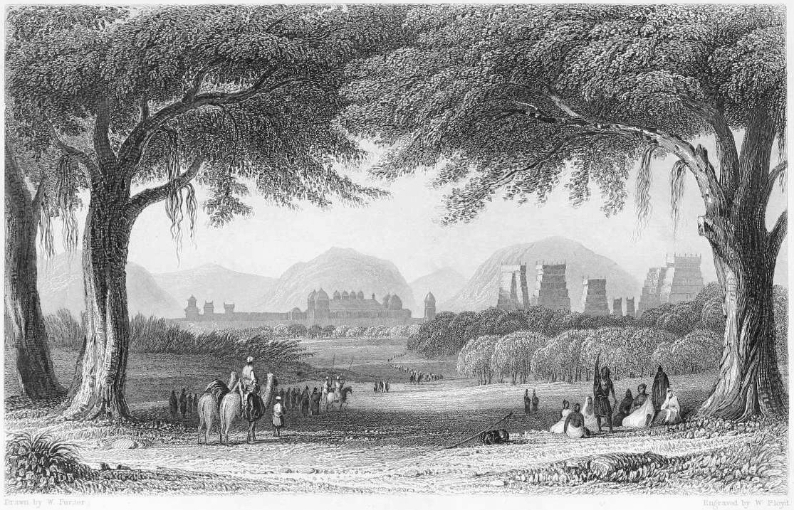 "The Celebrated Hindoo Temples and Palace at Madura," from vol. 3 of 'The Indian Empire' by Robert Montgomery Martin, c. 1860